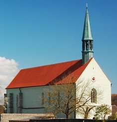 church Adlersberg near Pettendorf